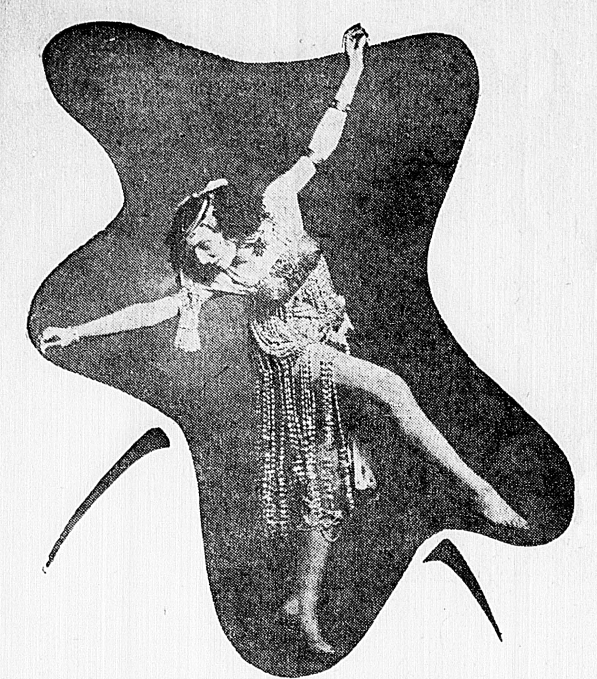 Ida Lvovna Rubinstein (Russian: Ида Львовна Рубинштейн; 5 October 1885 – 20 September 1960) was a Russian ballerina, actress, patron and Belle Époque figure.. Original caption: Ida Rubinstein, the Dancer, as She Was When She First Captivated D'Annunzio, and Before She Fled from Him.